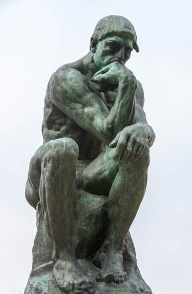 Paris is one of my favorite cities - this was my first trip back in about 5 years - way too long! I love walking for miles, getting lost, checking out side streets that look interesting, hitting major sights and totally obscure ones too. I was here in mid-January 2013 and it was dreadfully cold - the dampness in the air sunk into your bones and it was hard to get warm - that was the only bad thing about my short stay. Looks like I'll have to go back again when it warms up some time.